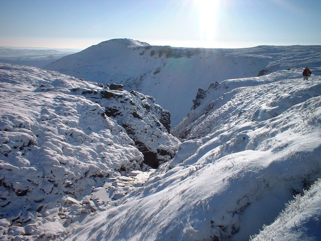 Head of Grindsbrook Clough, Edale A winter view from the southern edge of the Kinder Scout plateau looking down the head of one of the two steep gullies at the head of Grindsbrook Clough. The hill straight ahead is Grindslow Knoll.